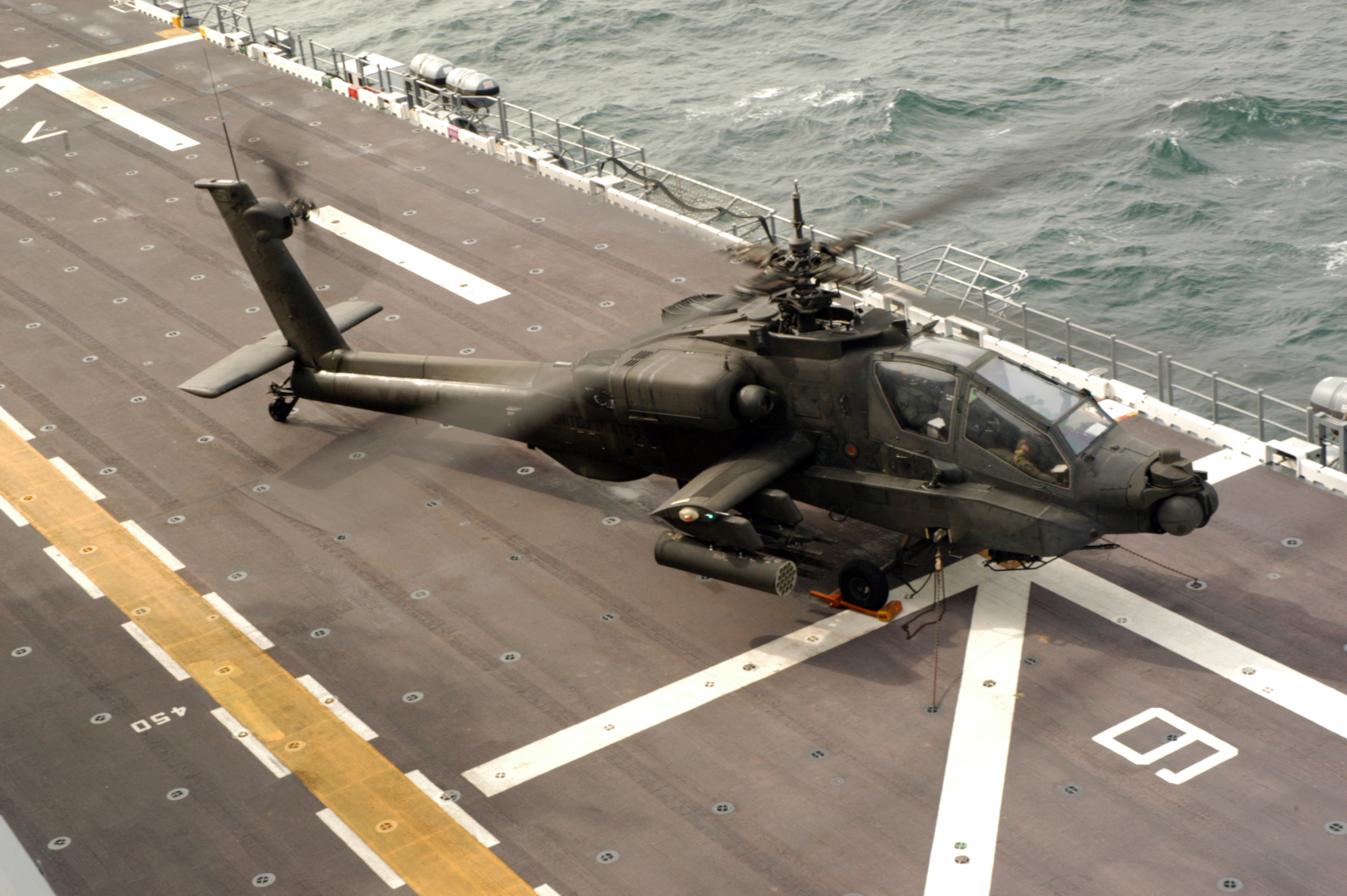 Atlantic Ocean (Feb. 1, 2005) - A U.S. Army AH-64 Apache helicopter prepares to launch from the flight deck aboard the amphibious assault ship USS Nassau (LHA 4) during Joint Shipboard Weapons and Ordnance (JSWORD) training. The JSWORD exercise provided an excellent opportunity for Navy and Army ordnance personnel to work together in a joint training environment. The AH-64 Apache is a twin-engine, four bladed, multi-mission attack helicopter designed as a highly stable aerial weapons-delivery platform. U.S. Navy photo by Photographer's Mate 1st Class Brian McFadden (RELEASED)